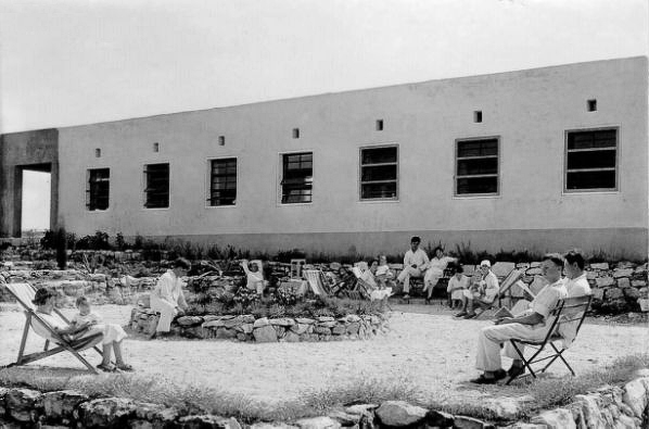 A photo of Borochov Resthouse on the Mount Carmel in Haifa. The place was owned by Kupat Holim Clalit. In 1976, the Carmel Hospital was inaugurated there.